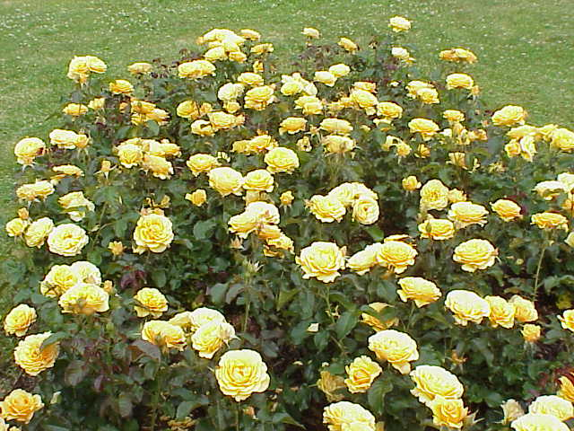 Species: Rosa sp. Family: Rosaceae Cultivar: Amber Queen, Harkness 1984 Image No. 32